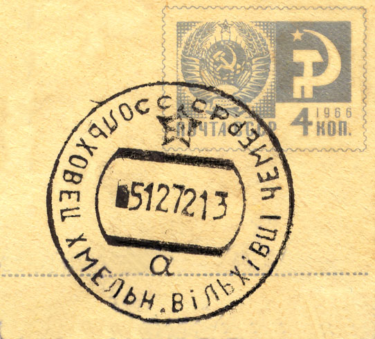 USSR cancel of 1972, village of Vilkhivtsi, Chemerivtsi District, Khmelnitsky Oblast, Ukraine.